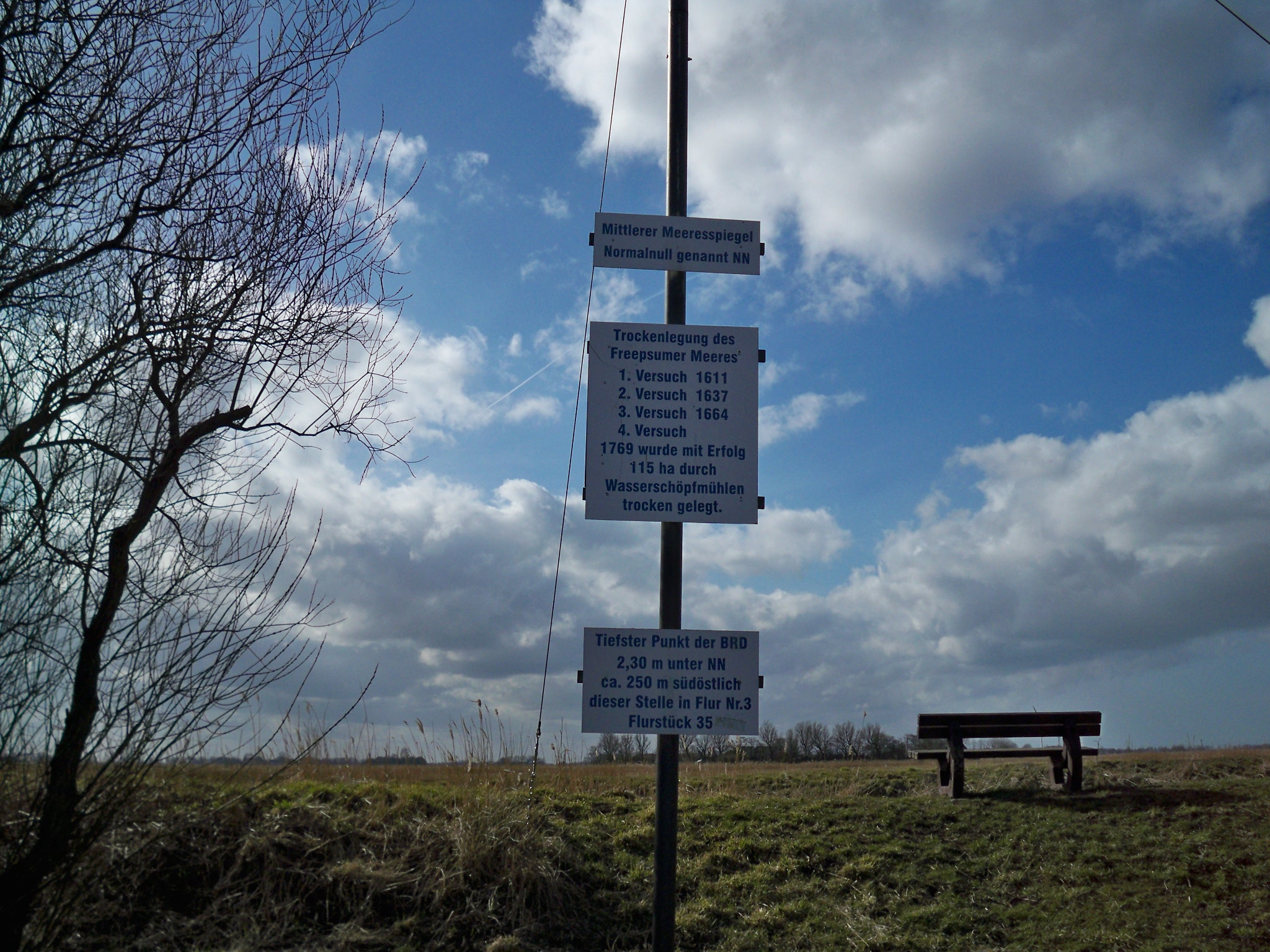 Sign about draining the Freepsummer Meer and location below sea-level